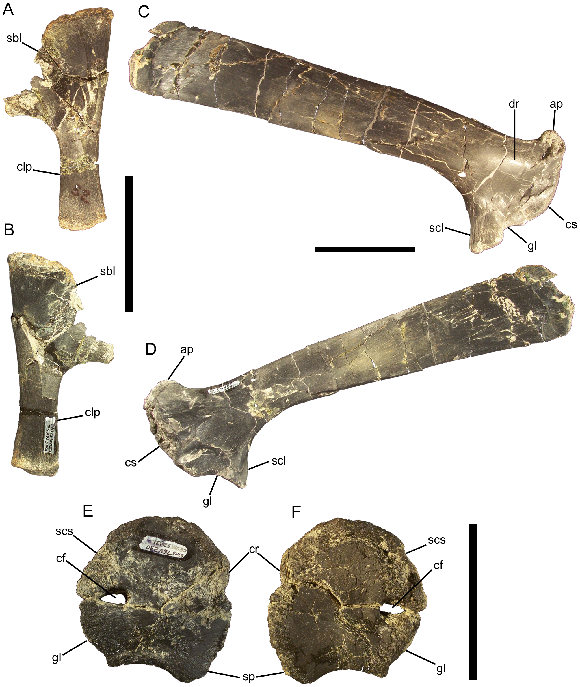 Pectoral girdle of Eolambia. Right sternal CEUM 52062 (WS8) in (A) dorsal and (B) ventral views. Right scapula CEUM 52097 (WS8) in (C) lateral and (D) medial views. Right coracoid CEUM 52831 (WS8) in (E) lateral and (F) medial views. Abbreviations: ap, acromion process; cf, coracoid foramen; clp, caudolateral process; cr, coracoid ridge; cs, coracoid suture; dr, deltoid ridge; gl, glenoid; sbl, sternal blade; scl, scapular labrum; scs, scapula suture; sp, sternal process. Scale bars equal 10 cm.